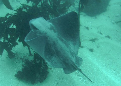 Bat ray (Myliobatis california) at Point Lobos, California.